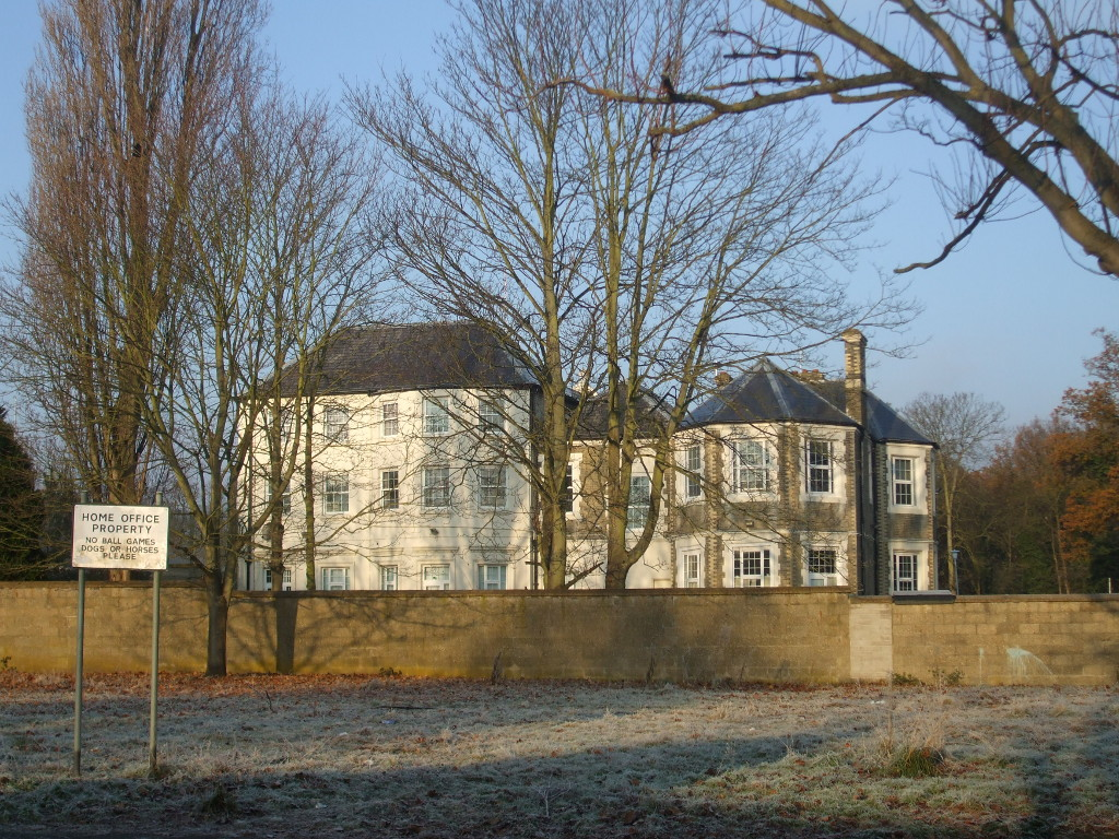 Latchmere House is on the edge of Ham Common, Ham, London. Originally a Victorian private dwelling, it became owned by the Ministry of Defence through World War I and had various uses until after World War II, including a late period owned by the Prison Service, which use ended in September 2011.